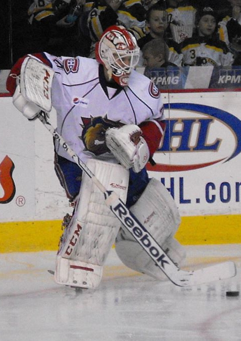 Taken 11/30/2013 @ Copps Coliseum, Hamilton, ON